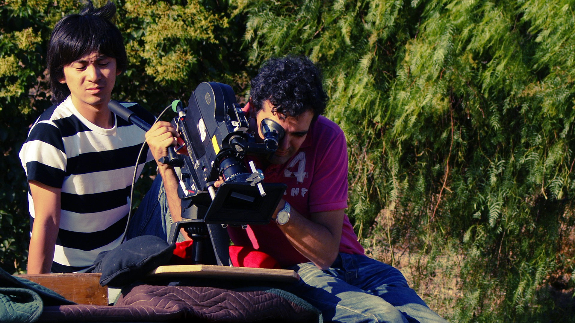 Director Xiaoxi Xu and Cinematographer Roberto F. Canuto in Mei Mei